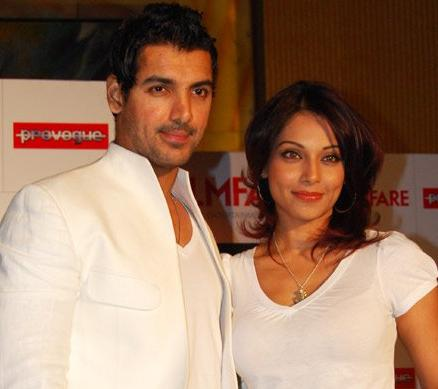 Indian actor John Abraham with actress Bipasha Basu at the launch of the Filmfare magazine.